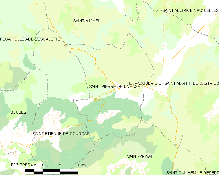 Map commune FR insee code 34283.png - Saint-Pierre-de-la-Fage